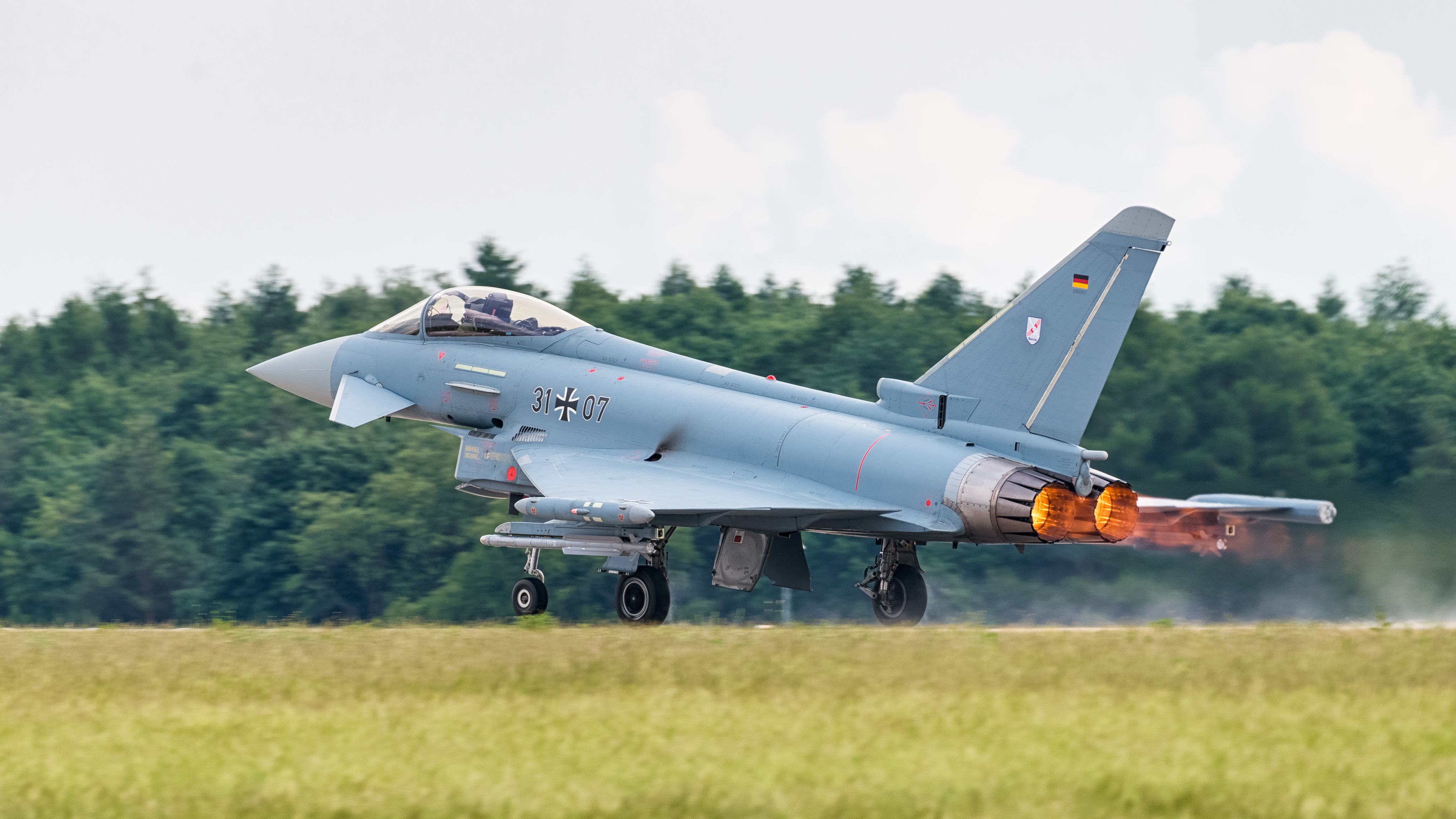 Eurofighter Typhoon EF2000 (reg. 31+07, cn GS083 and reg. 30+87, cn GS066) of the German Air Force at ILA Berlin Air Show 2016.